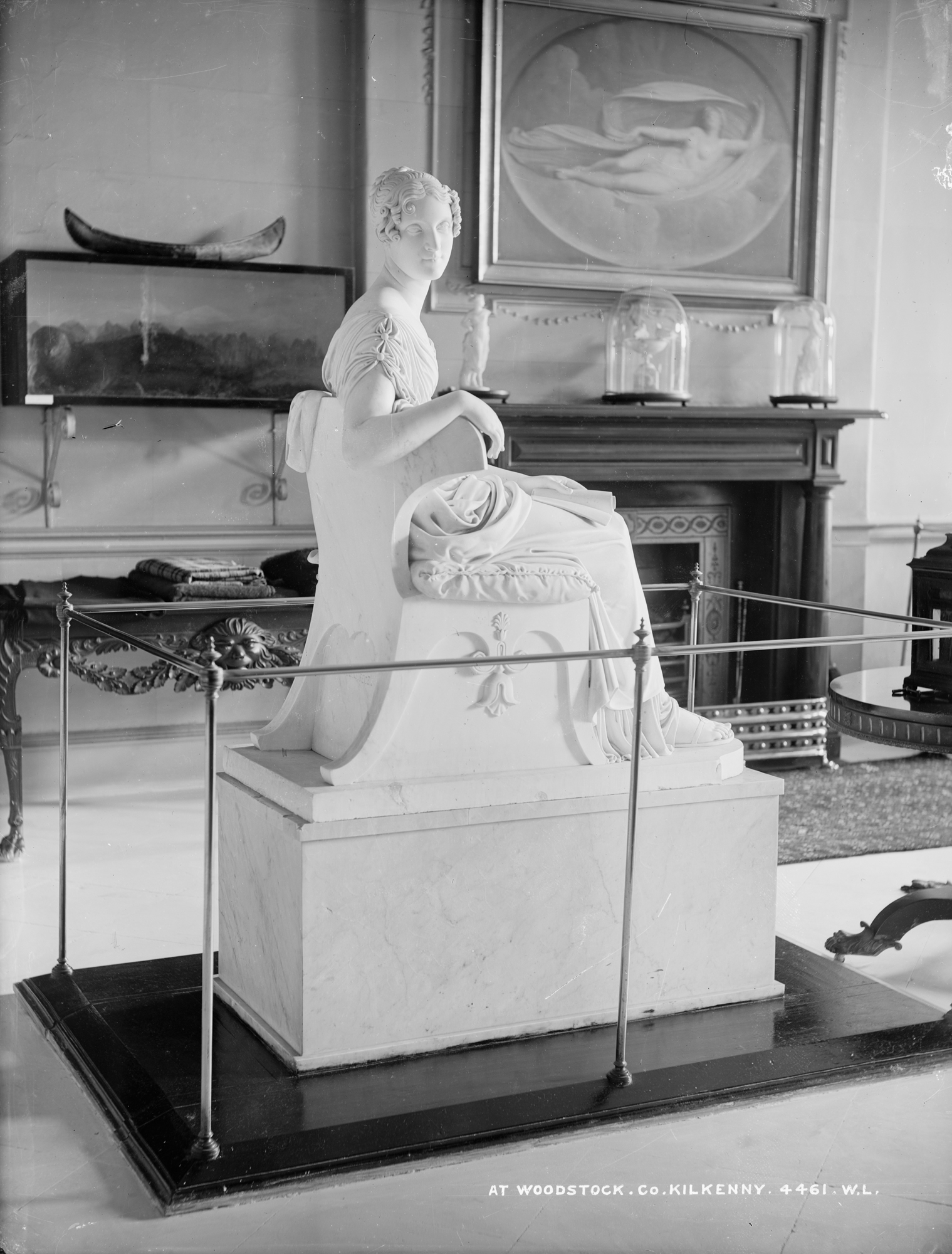 At Woodstock County Kilkenny A beautiful statue of a lady (without hat) in the house "Woodstock" in Co. Kilkenny! Thanks to Seuss. who tells us that the Sculpture is of Mary Blachford Tighe (1772-1810) as sculpted by Lorenzo Bartolini ca. 1820. Mary Tighe was an accomplished poet and her poem Psyche was admired by many and praised by Thomas Moore in his poem, "To Mrs. Henry Tighe on reading her Psyche" See Wikipedia Mary Tighe sharon.corbet Tells us that the the subject matter of the photo was destroyed in a disastrous fire on July 2nd 1922 see The Irish Aesthete